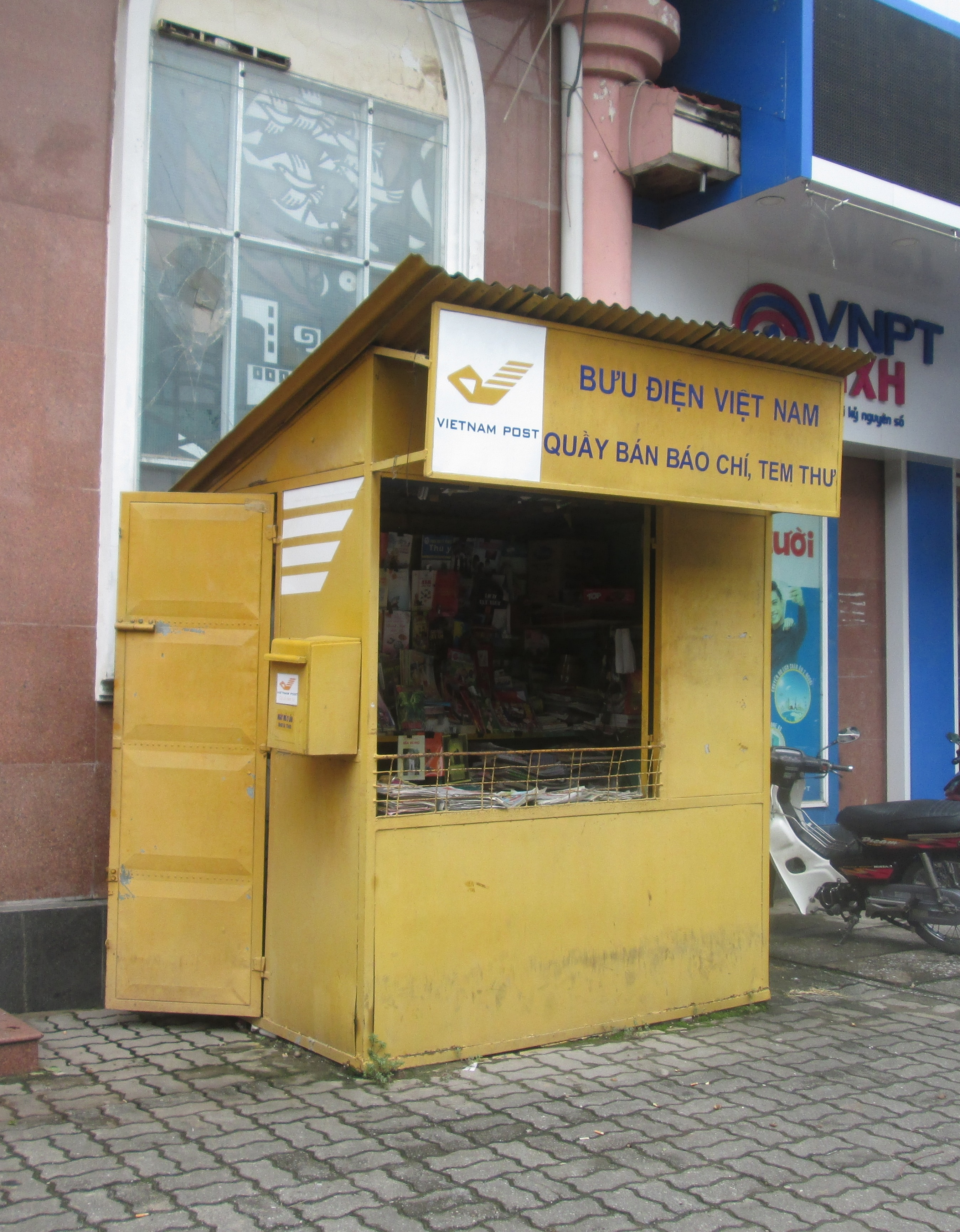 A newspaper kiosk beside Nam Dinh Post Office, on Ha Huy Tap Street, Nam Dinh City, Nam Dinh Province, Vietnam.